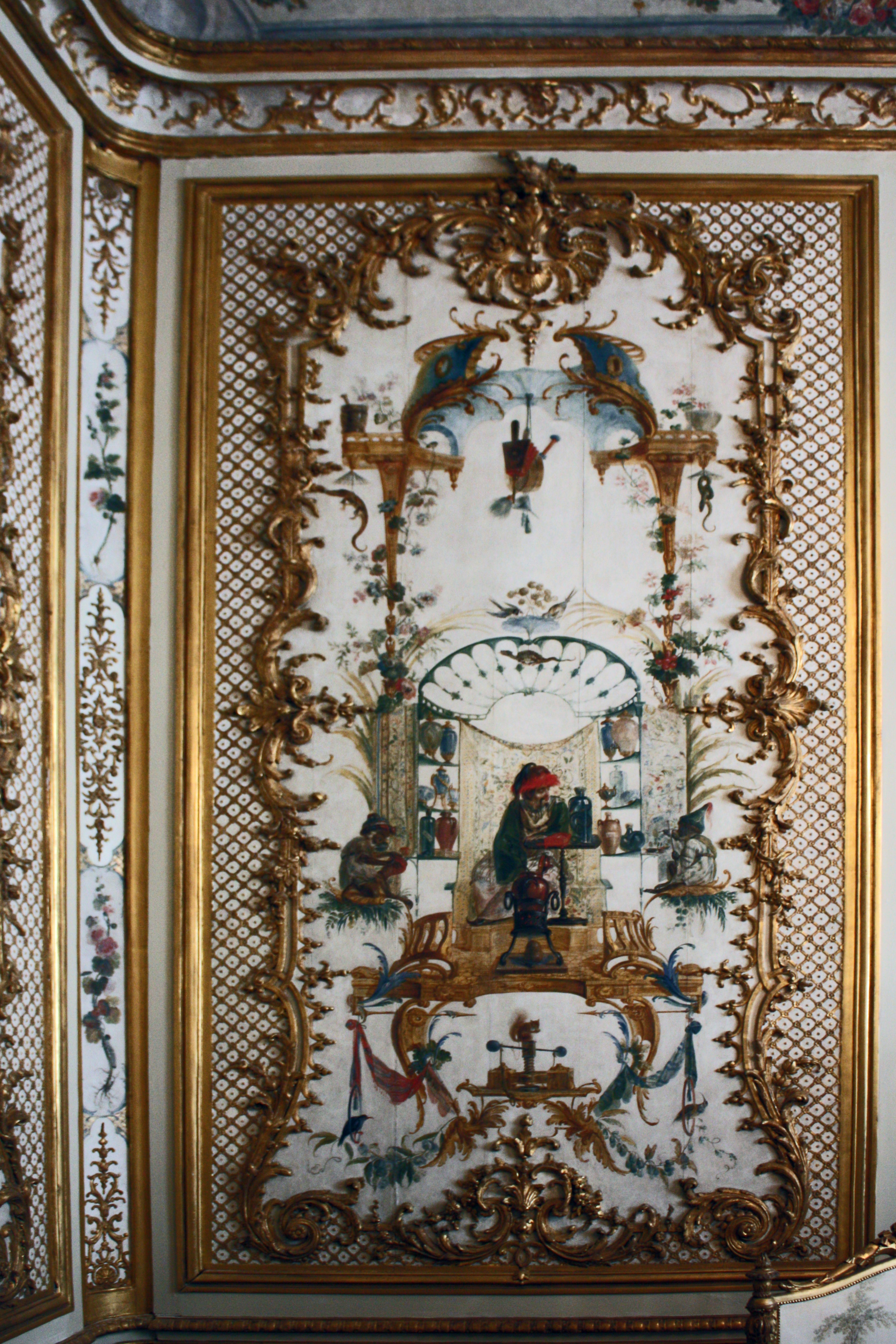 Allegory of alchemy.